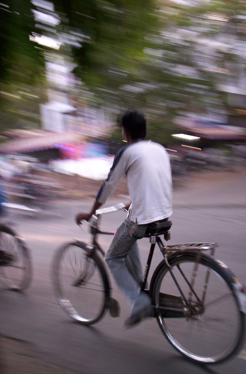 a BICYCLE again. Snap taken on Law college road, Pune.